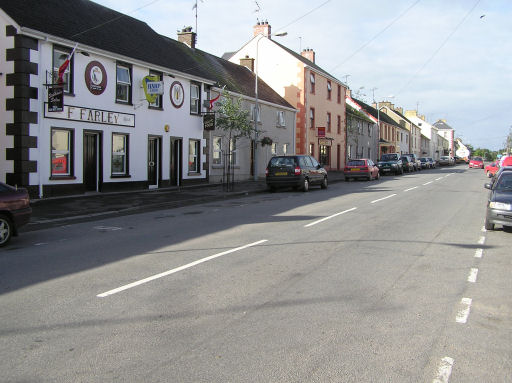 Beragh County Tyrone. Beragh is a small village approximately eight miles from Omagh with a population of around 600. One of the first references to the village was on a plantation map of Ireland of 1609 and, with a rich historical tradition and many natural attributes, Beragh is a thriving street village where the economy is mainly agriculture based.